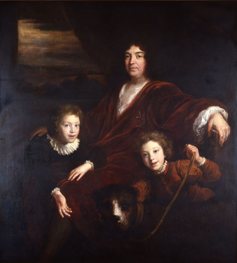 Louis (1689-1745) VIst Duke of Gramont (1741) And his two sons : Antoine VII (1722-1801) VIIth Duke of Gramont Married :Marie Louise Victoire de Gramont in 1739, Béatrice de Choiseul in 1759; Marie Henriette du Merle in 1794 Antoine Adrien (1726-1762) Count of Gramont, Marshal of encampments Married Sophie de Faoucq in 1748. Father of Antoine VIII